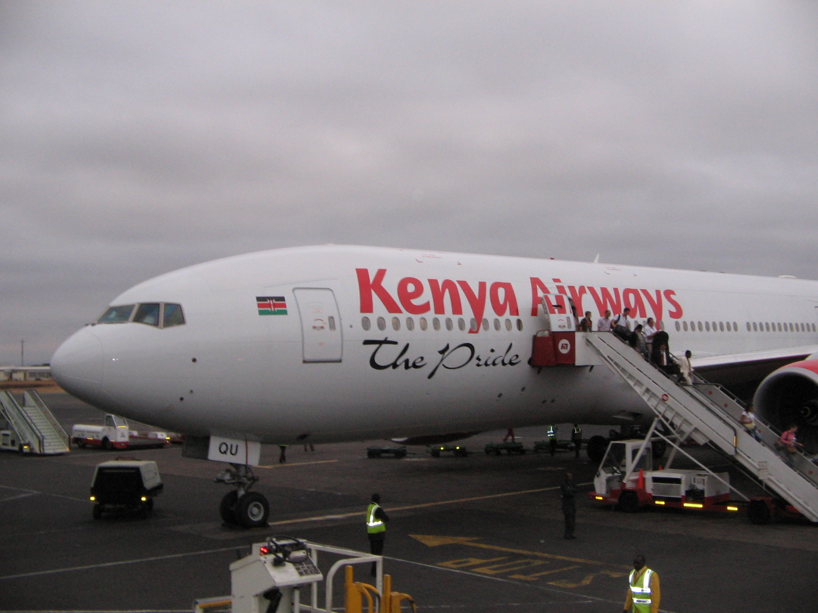 Kenya Airways Boeing 777-2U8/ER aircraft (5Y-KQU) at Jomo Kenyatta International Airport in Nairobi, Kenya